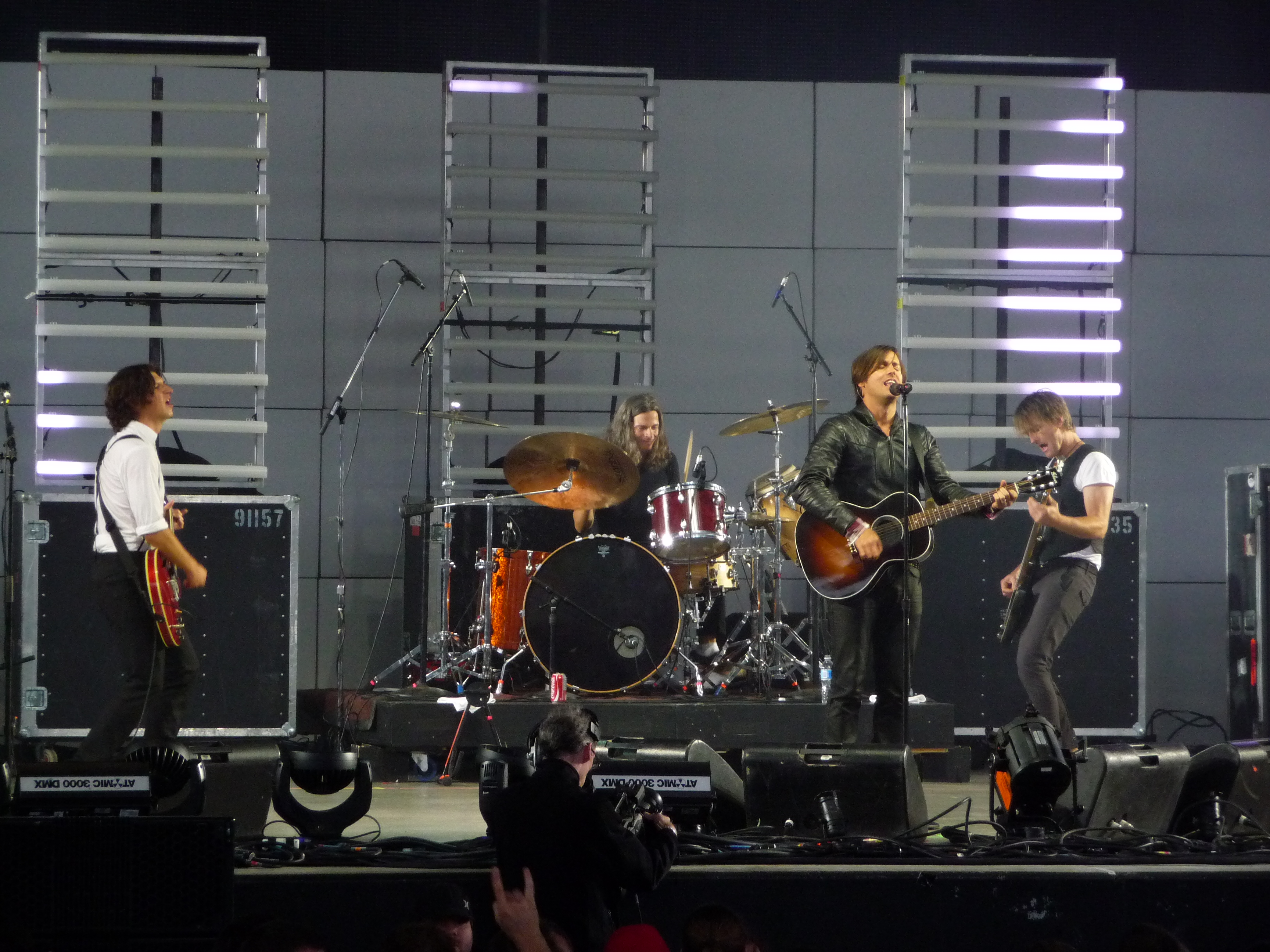 A picture of Our Lady Peace at Virgin Festival Ontario day 2 2009 taken by Charwinger21